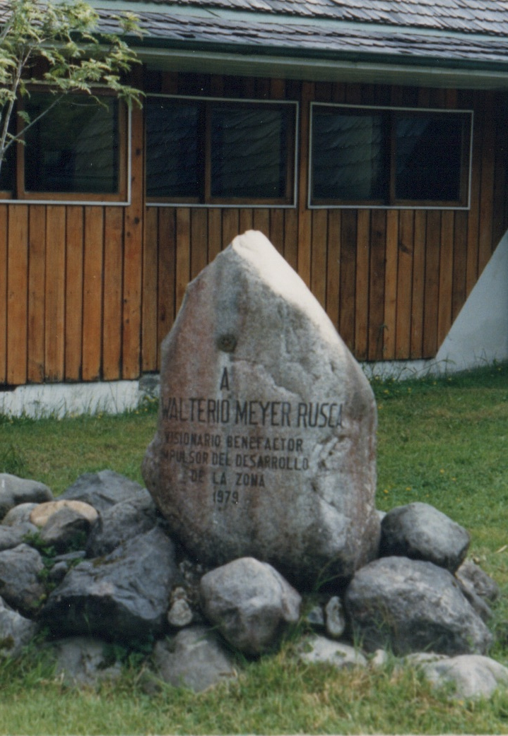 Monument in honour of Walterio Meyer Rusca at the Termas de Aguas Calientes in Puyehue National Park, Chile.